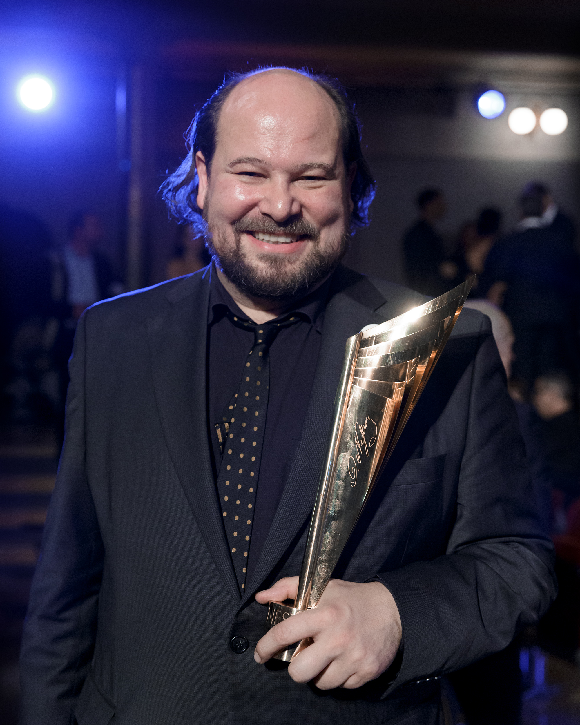 Rainer Galke, awarded as best actor, at the Nestroy Theatre Awards 2016 (Ronacher, Vienna, Austria).